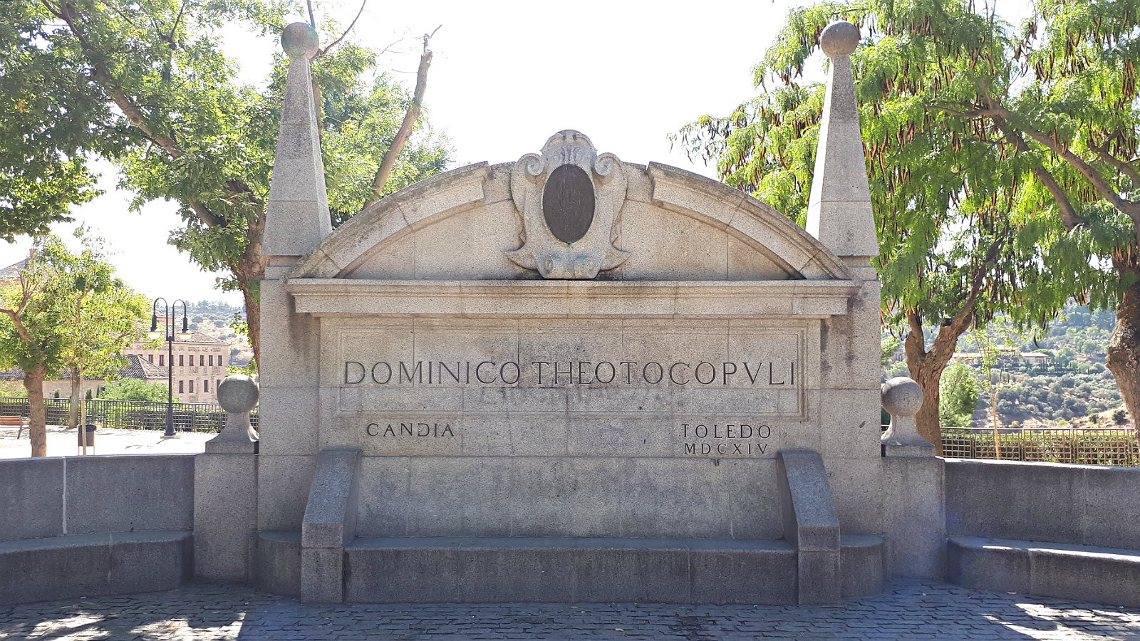 Monument honoring El Greco (Doménikos Theotokópoulos) in Paseo del Tránsito park, across the Museo del Greco, Toledo, Spain. The inscription reads: Dominico Theotokopuli Candia - Toledo MDCXIV